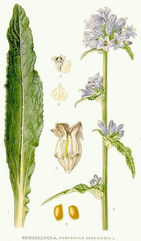 Original Description: Skogsklocka, Campanula cervicaria L.